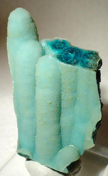 Chrysocolla Locality: Ray Mine, Scott Mountain area, Mineral Creek District (Ray District), Dripping Spring Mts, Pinal County, Arizona, USA (Locality at ) A nicely formed cluster of vivid blue-green chrysocolla stalactites coated by blue quartz from the Ray Mine. The broken stalactites highlight and reveal the lustrous chrysocolla. 7.0 x 4.8 x 2.8 cm